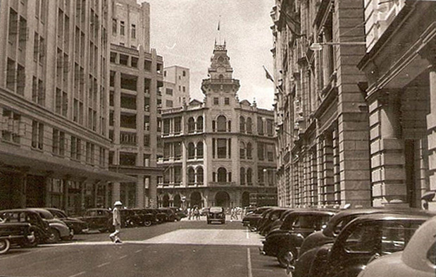 View of the intersection of Ice House Street and Chater Road by looking west along Chater Road in the 1930s. The building at the end of the road is the 2nd generation of Jardine House, which stood from 1908 to 1955. It was located at the junction of Pedder Street and Des Voeux Road (where the Wheelock House is now located).